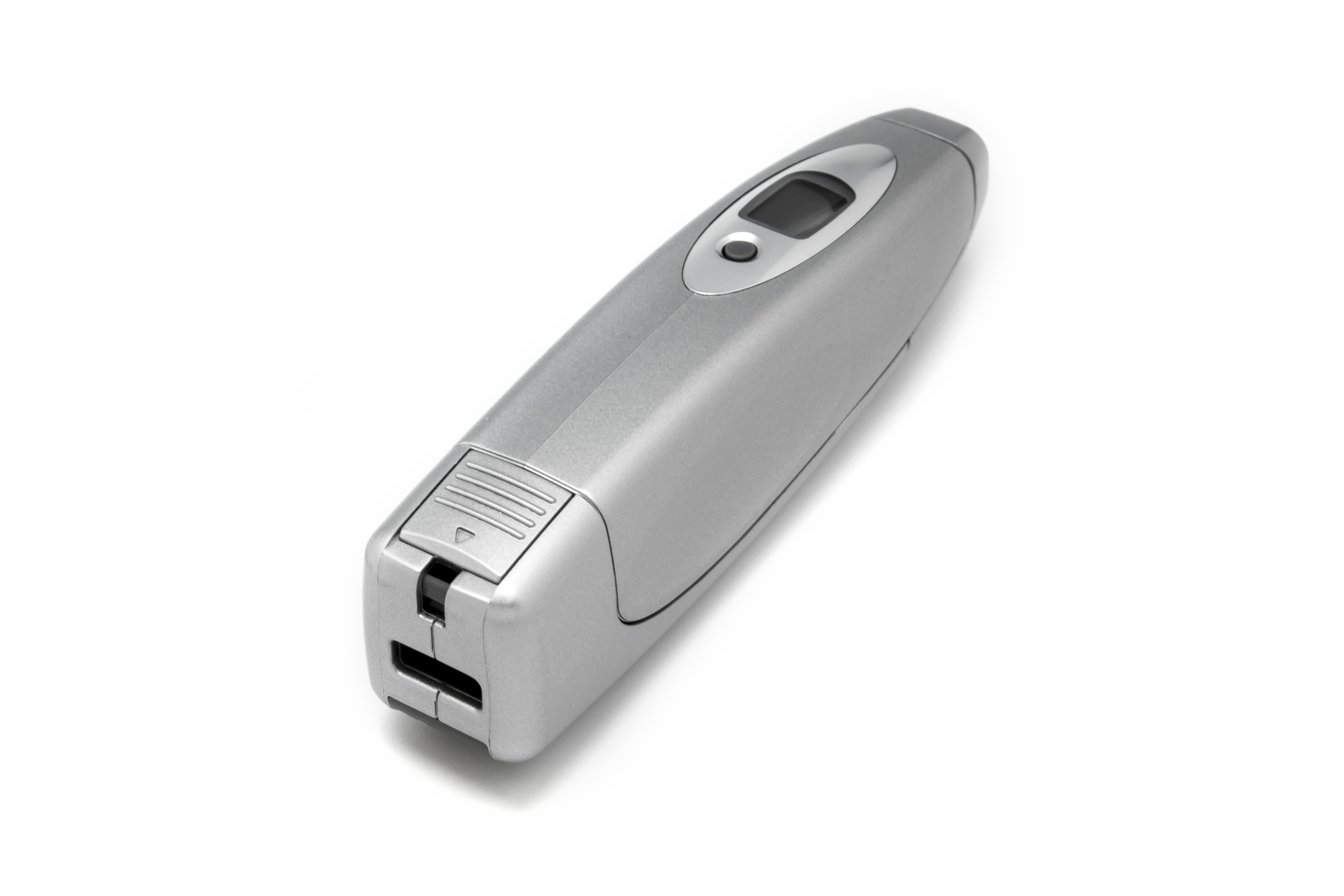 The Heatbar, a heated tobacco product developed by Philip Morris International in the mid-2000's.